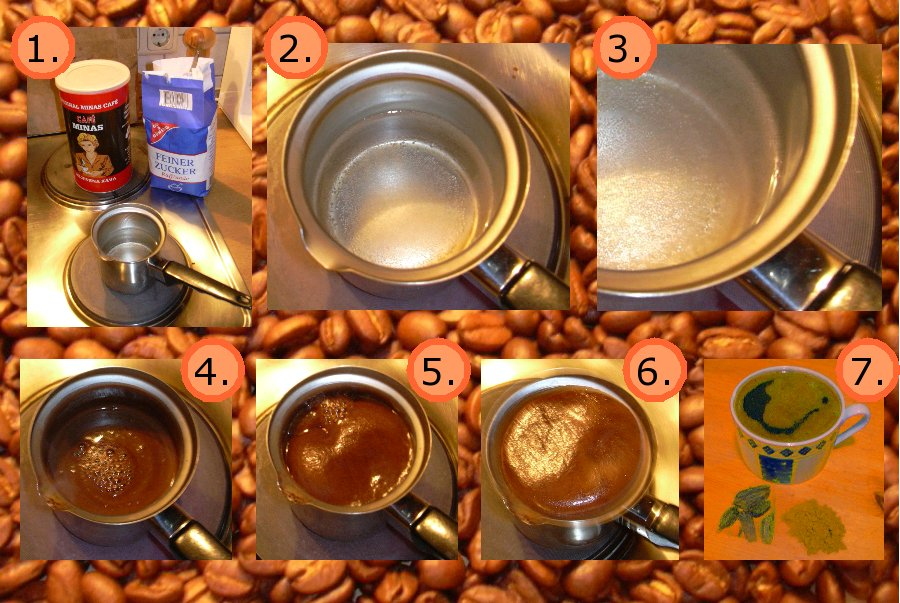 Preparation of mocha coffee (Turkish Coffee). 1: Ground coffee, water, sugar, and heat source. 2, 3: heat the water till it starts bubbling. 4: add coffee. 5: continue heating and mixing. 6: heat until the mixture starts to rise, then take off the heat source to settle it down while mixing the upper part (repeated many times). This creates a foamy top. 7: pour and serve hot